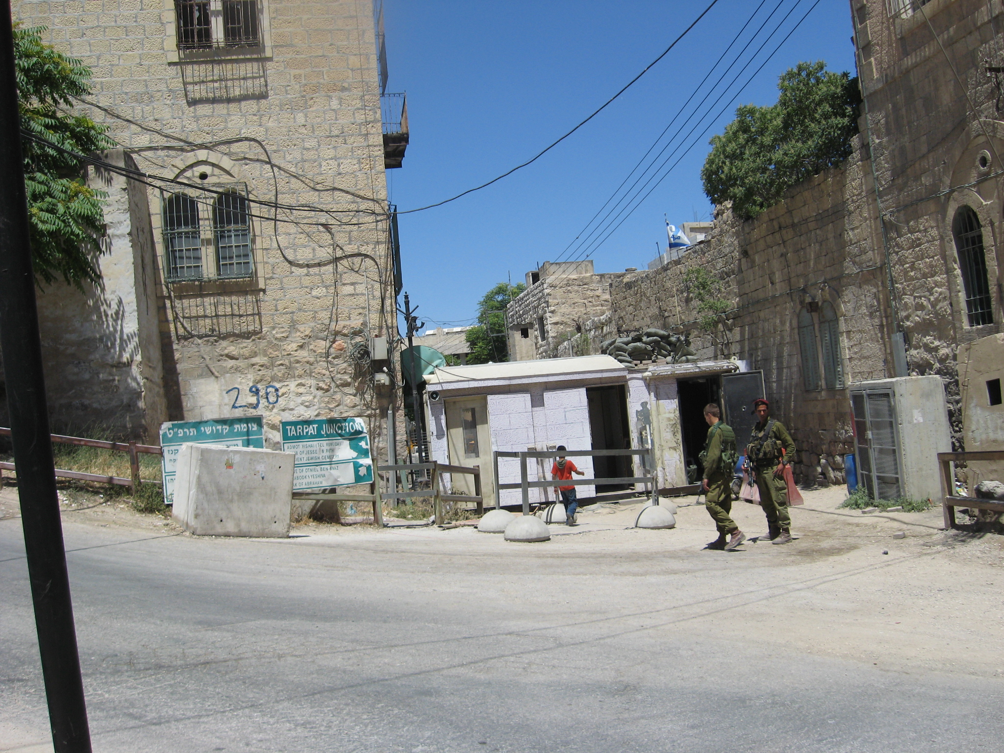 Makhsum Shoter, "Policeman Barrier", separating H2 (Israeli-controlled) and H1 (Palestinian Authority-controlled) regions of Hebron. Taken from H2 region.